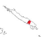 Image showing the extension of the blablanga language on the island of Santa Isabel